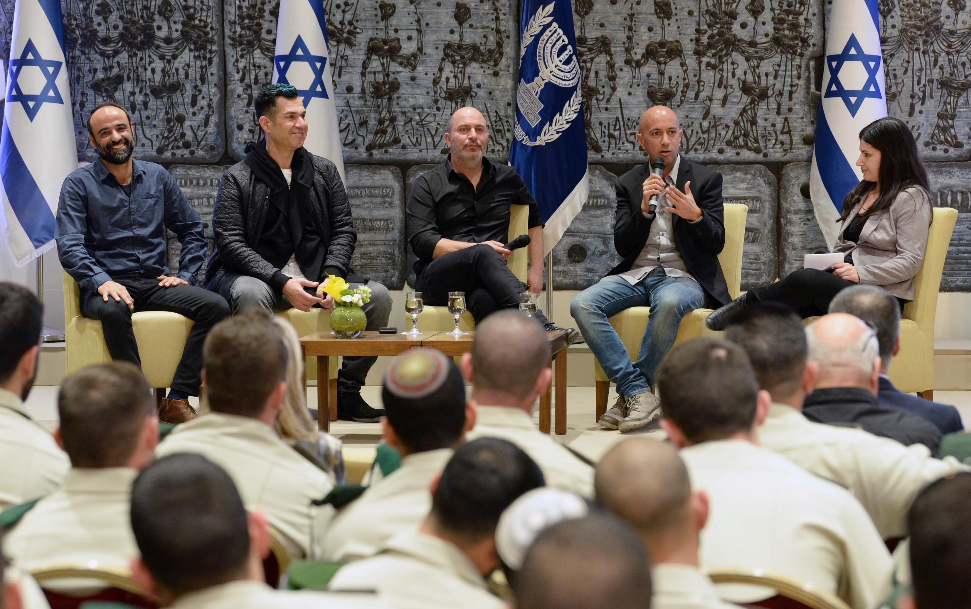 Yamas fighters, with the personal of the Israeli television serie, Fauda, Wednesday, February 7, 2018. Photo Credit: Mark Neyman / GPO.